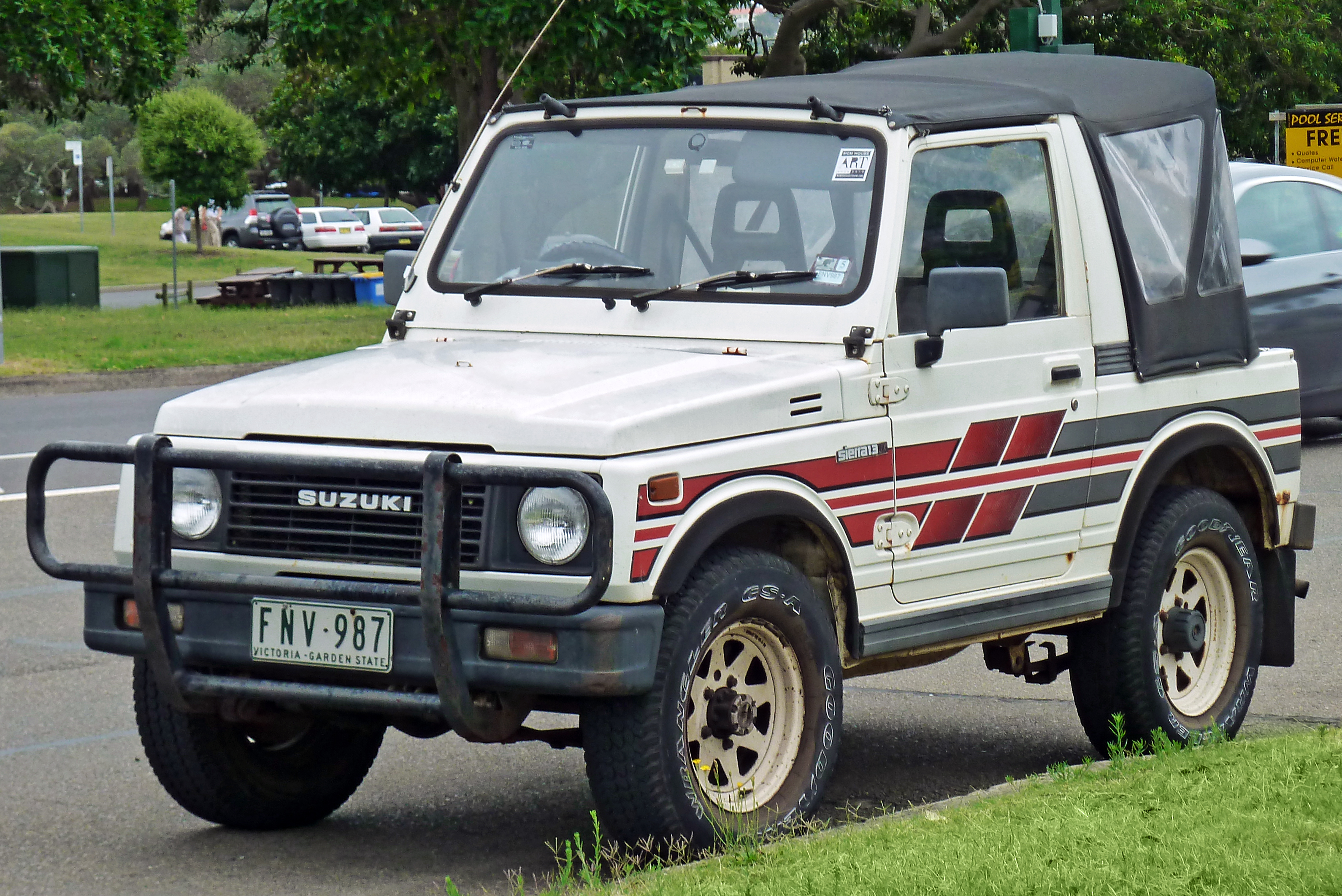 1987 Suzuki Sierra JX 1.3 softtop. Photographed in Rose Bay, New South Wales, Australia. Vehicle registration enquiry results Jurisdiction Victoria Registration FNV987 Chassis code V943276P Engine code G13A408385 Compliance date 1987-07 Year of manufacture 1987